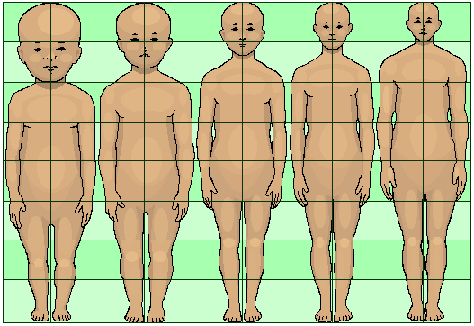 This file is a redrawn and colored version of a sketchy, colorless diagram from the Journal of Heredity (1921) Volume 12, pg 421. It depicts human body proportions changing as the subject matures. The diagram shows that the head becomes proportionately smaller and the limbs become proportionately longer as the subject matures. The link below goes to the original diagram. File:Neoteny_body_proportion_heterochrony_human.png